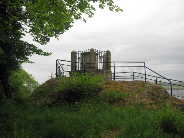 A photograph of Clachnaharry battle monument